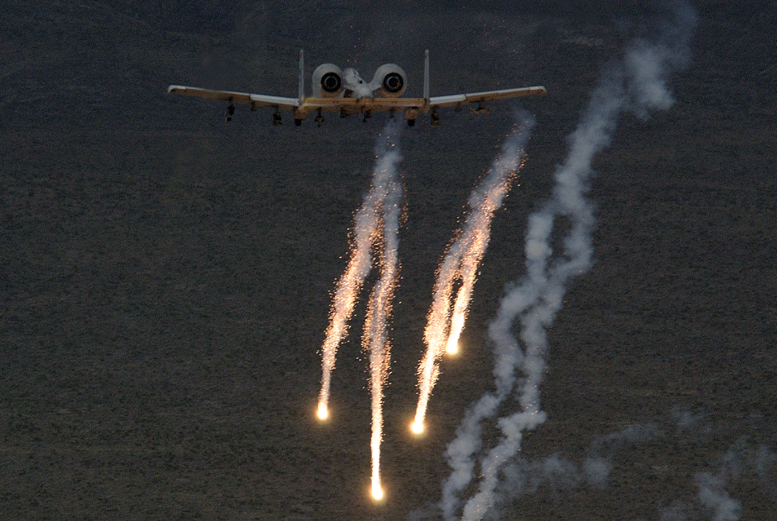 NELLIS AIR FORCE BASE, Nev. -- An A-10 Thunderbolt II assigned to the Nellis' 66th Weapons Squadron releases chaff and flare during a close air support mission over the Nevada Test and Training Range May 5, 2005. The A-10 is specially designed for close air support of ground forces. They are simple, effective and survivable twin-engine jet aircraft that can be used against all ground targets, including tanks and other armored vehicles. (U.S. Air Force Photo by Tech. Sgt. Kevin J. Gruenwald) Released